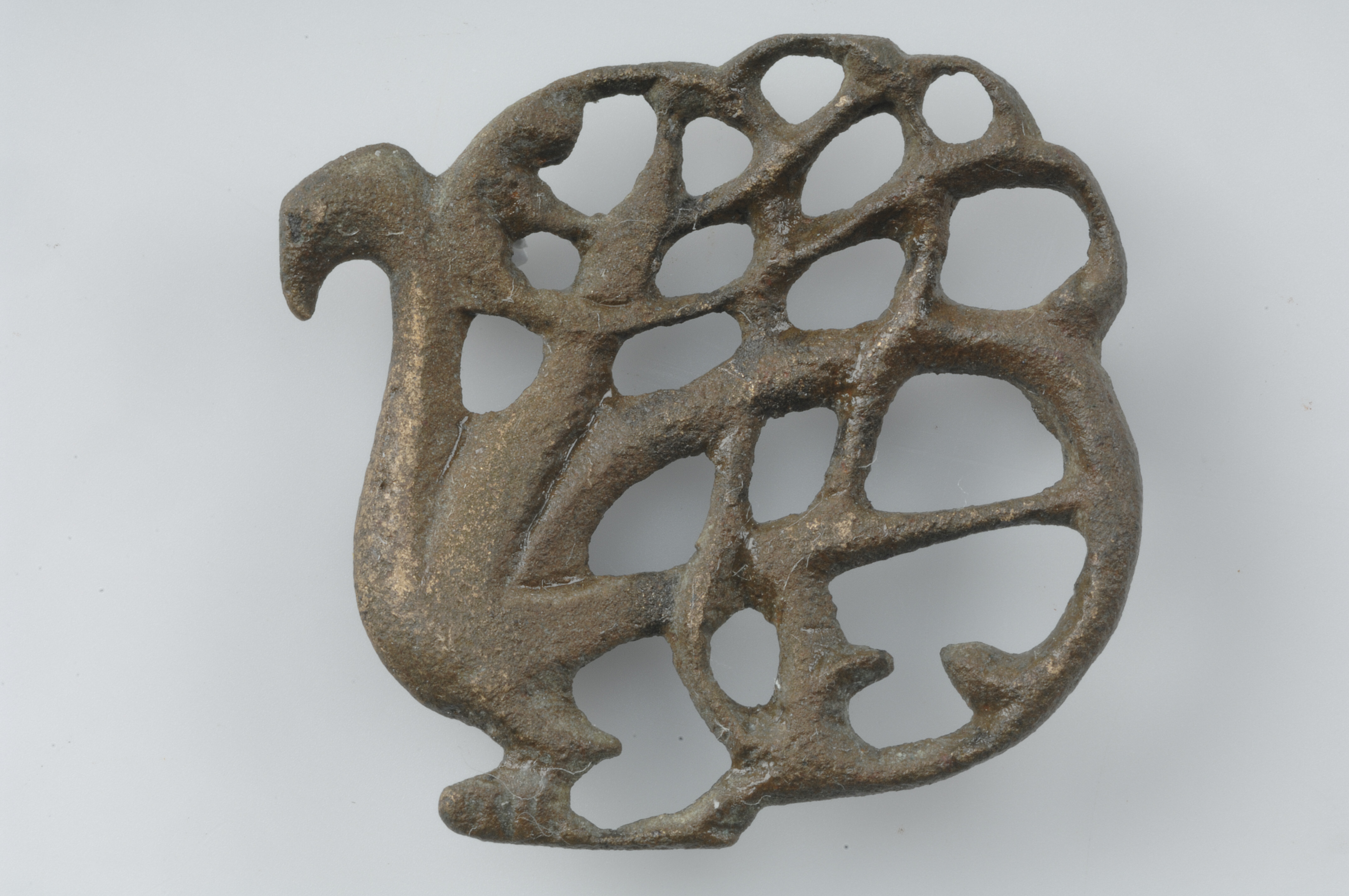 Brooch. Bronze. Urnes style. Gårdby borg, Gårdby, Öland, Sweden. SHM 7871:171a See also